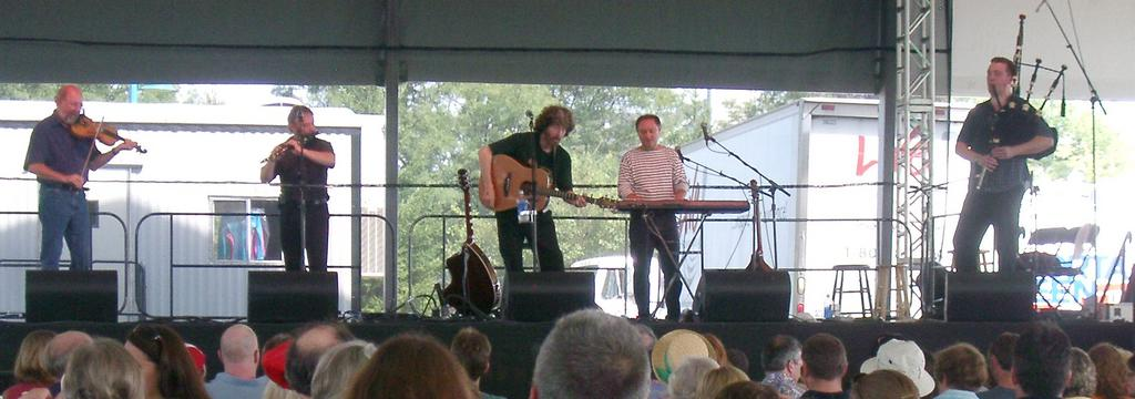 The Tannahill Weavers performing at the 2005 Dublin Irish Festival in Dublin, Ohio, USA.